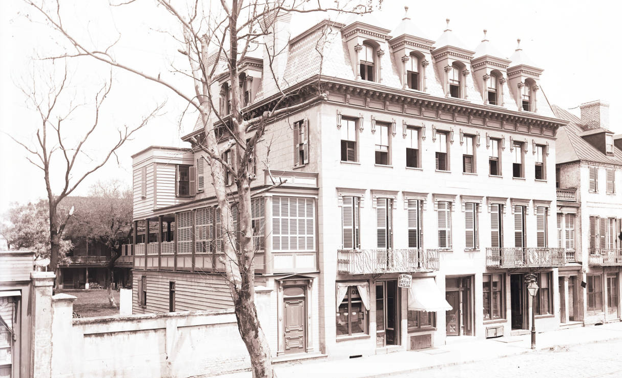 The Confederate House was photographed by George LaGrange Cook sometime around 1890. The original print was printed in reverse, but this image has been corrected.